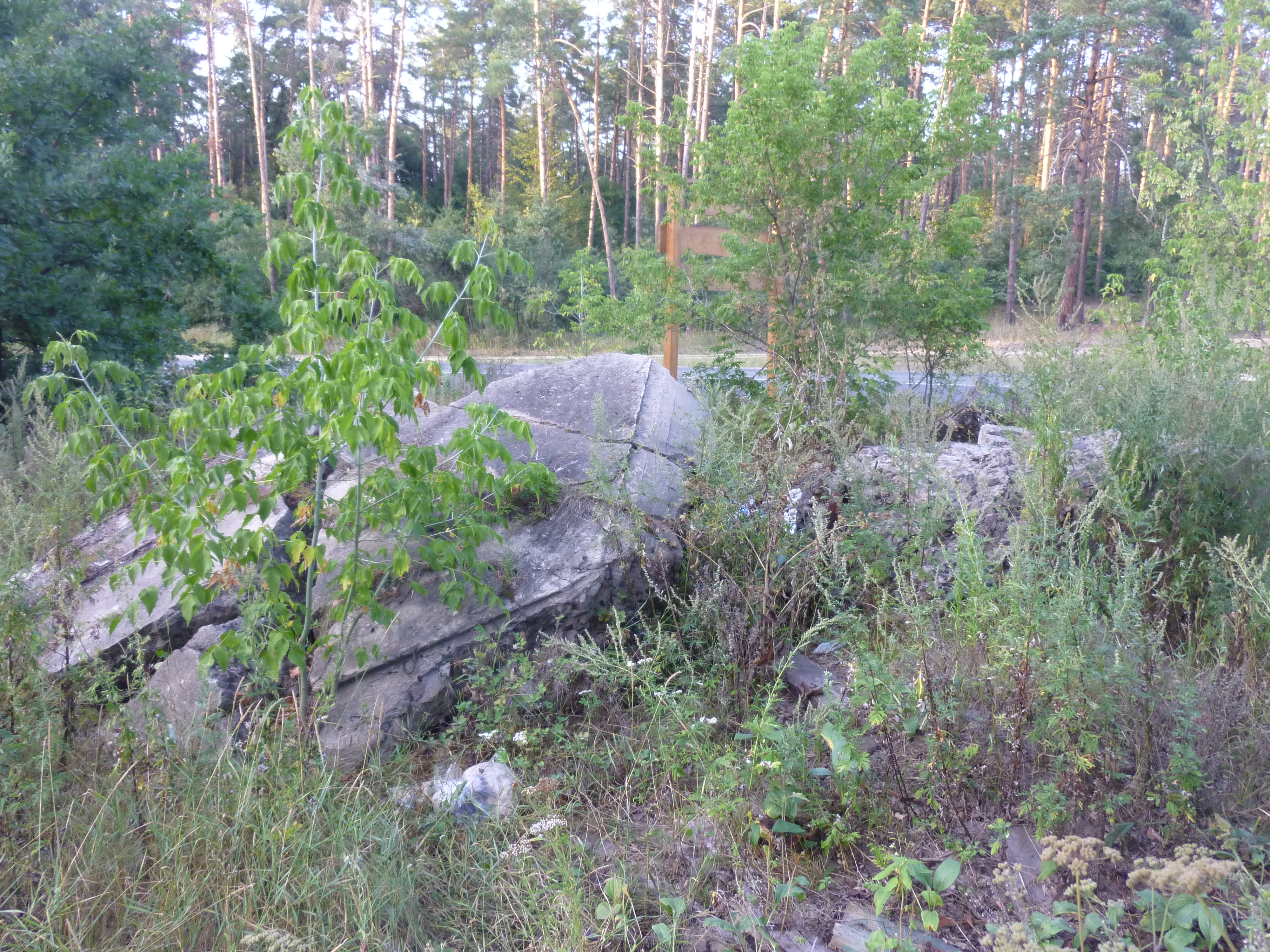 Pillbox 478 (Kyiv Fortified Region)